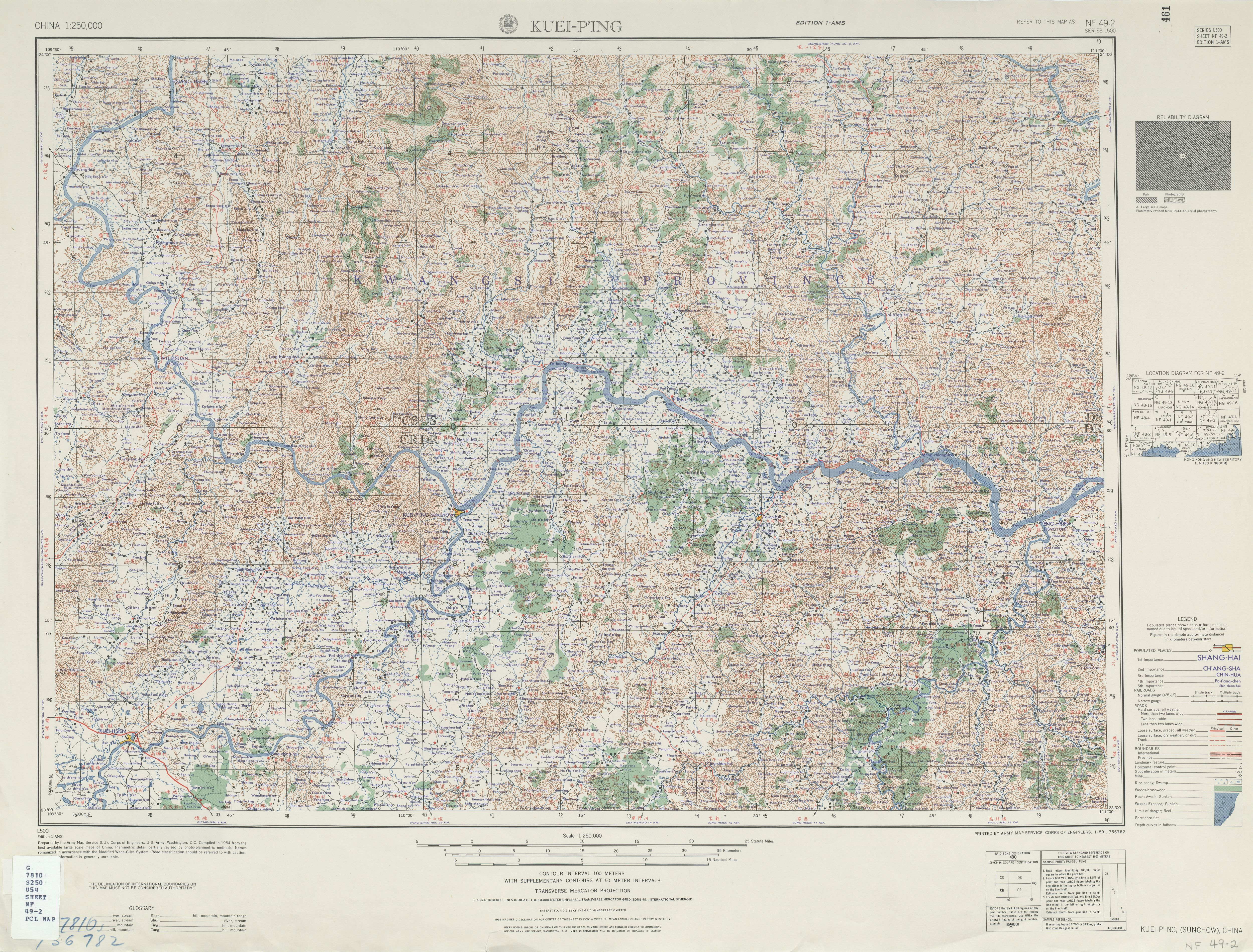 China AMS Topographic Maps